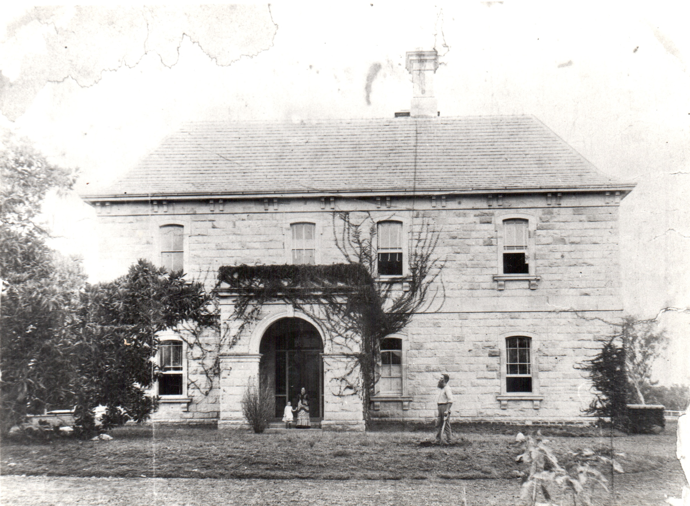 Jimbour is the main homestead on one of the earliest stations established on the Darling Downs, is important in demonstrating the pattern of early European exploration and pastoral settlement in Queensland, Australia.